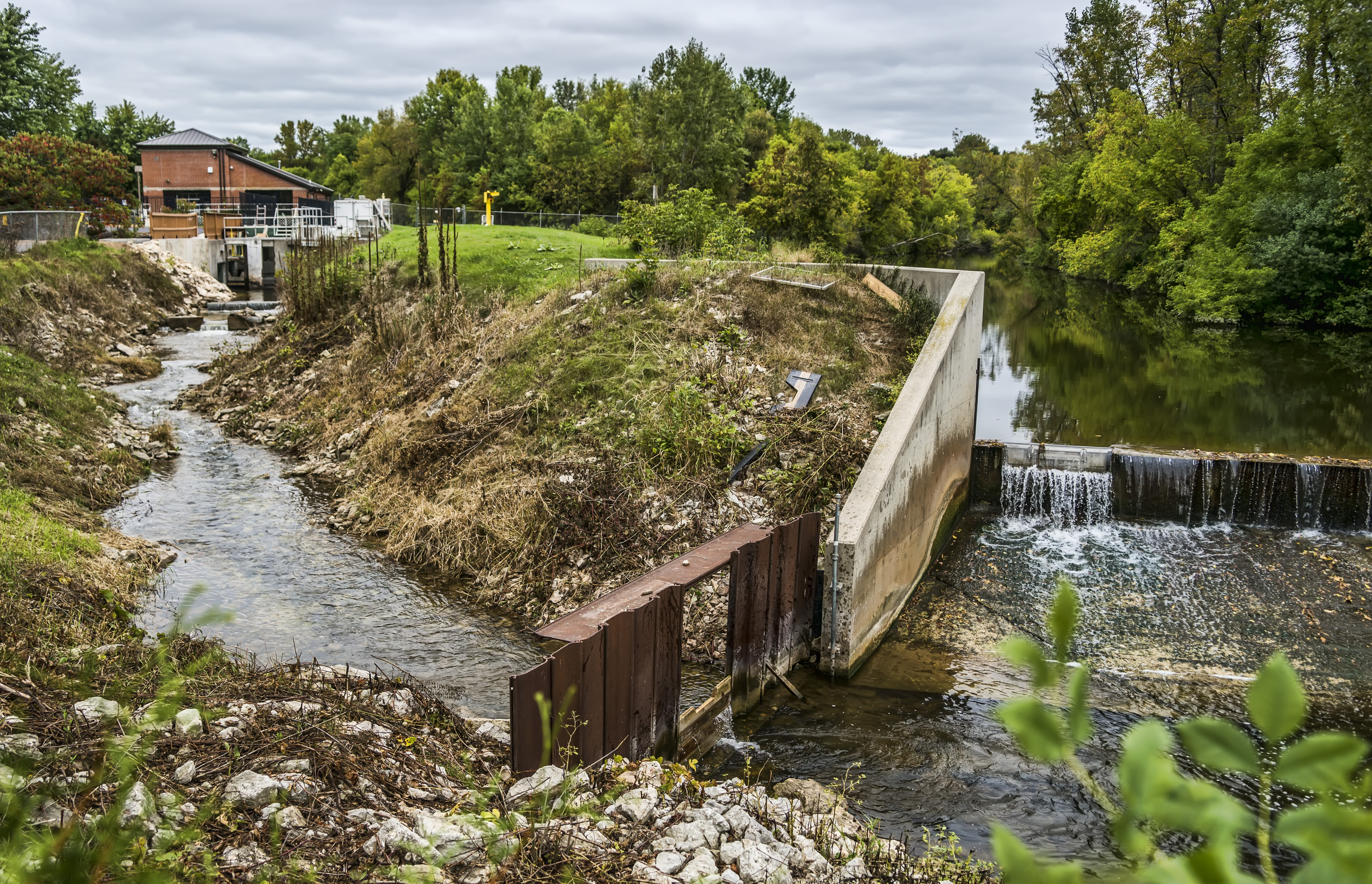 View looking upriver at the old Footbridge dam and diversionary route to the egg collection facility.